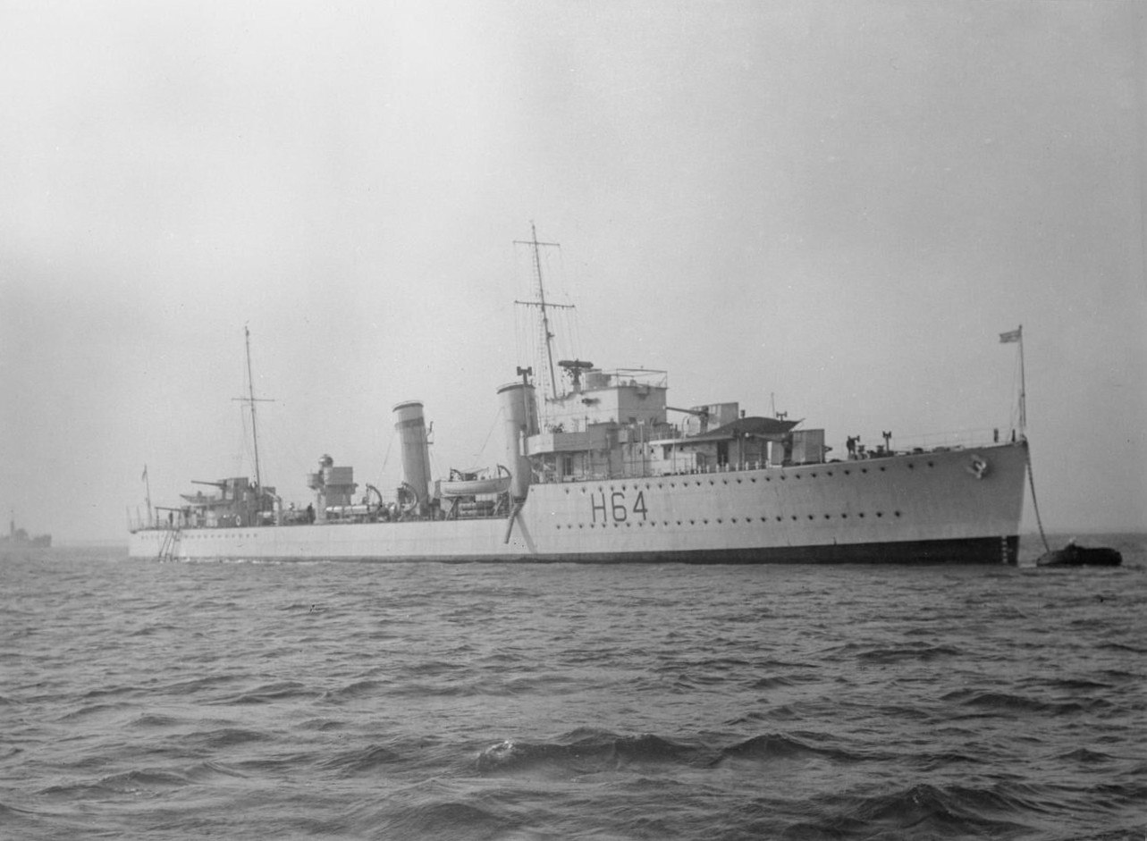 Royal Navy destroyer HMS Duchess at a buoy